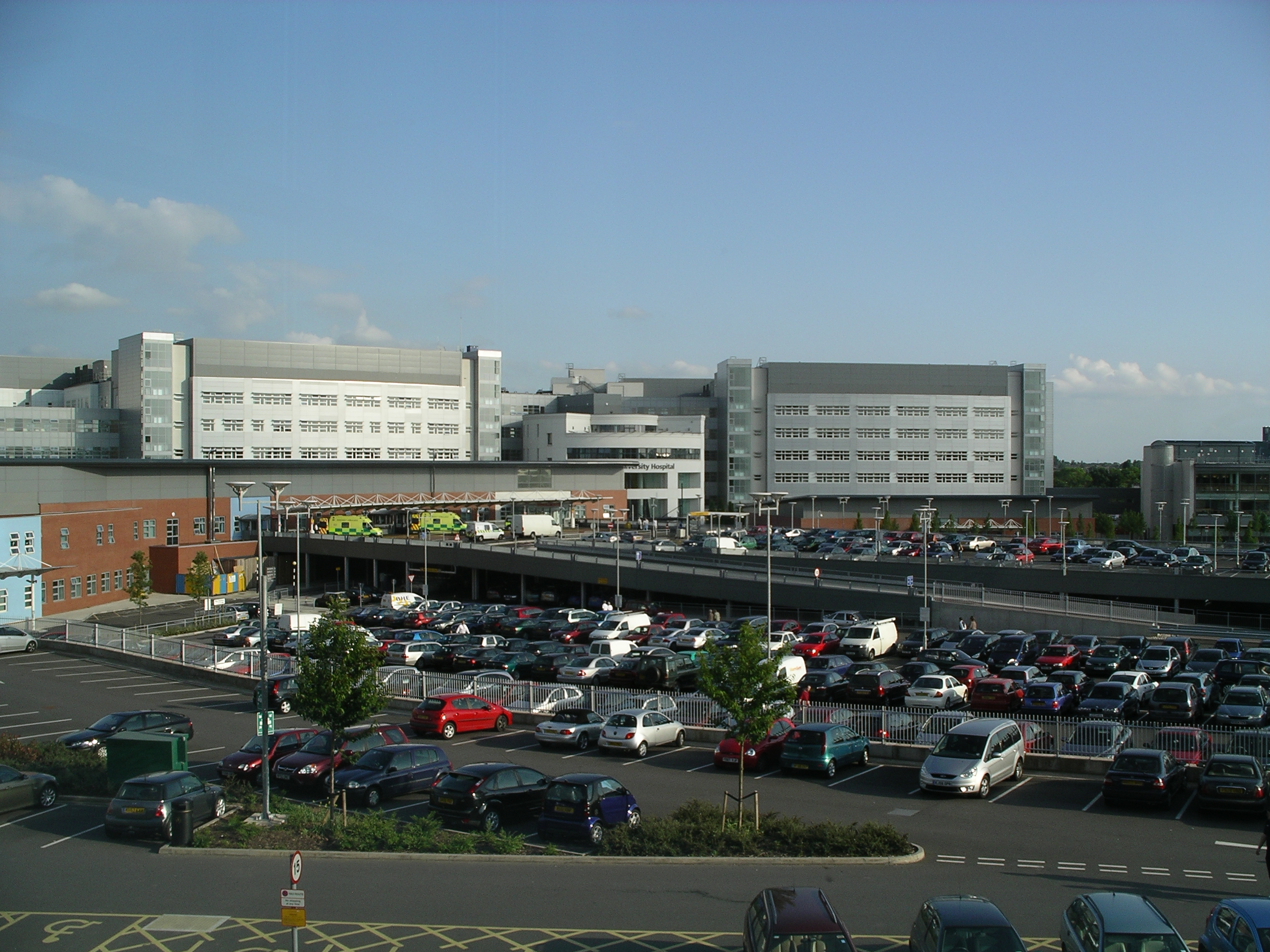 University Hospital Coventry, Walsgrave, Coventry, England. Photo from a stairwell of the Meridon Hospital through slightly tinted glass.